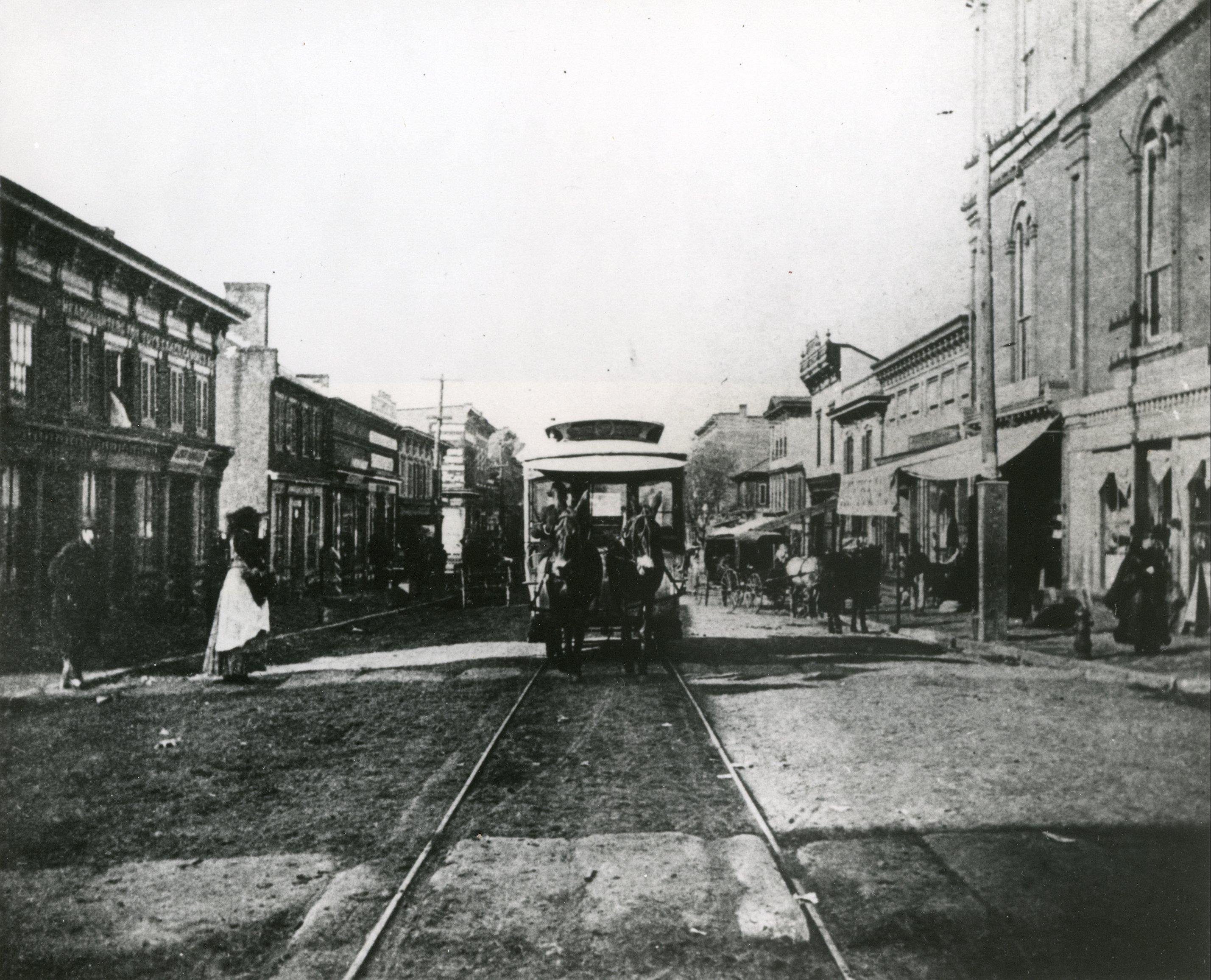 A mule-drawn Charlottesville and University Street Railway car in the late 1880s. Predecessor of the Charlottesville and Albemarle Railway.